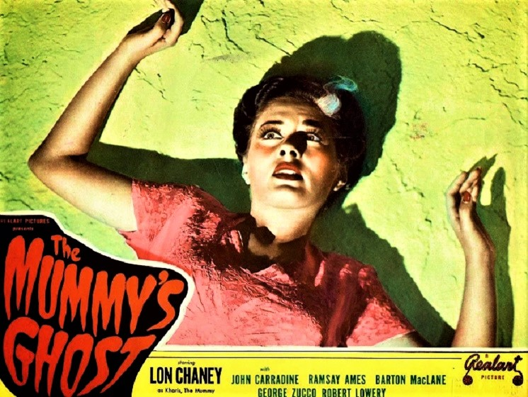 Poster del film The Mummy's Ghost